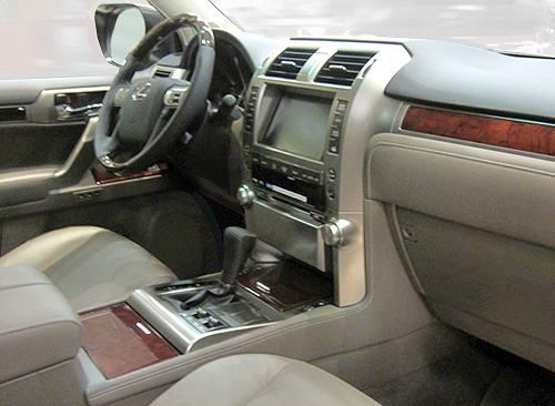 GX 460